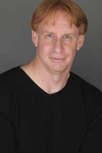 Kevin Grazier headshot